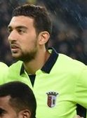 Ahmed Hassan Mahgoub